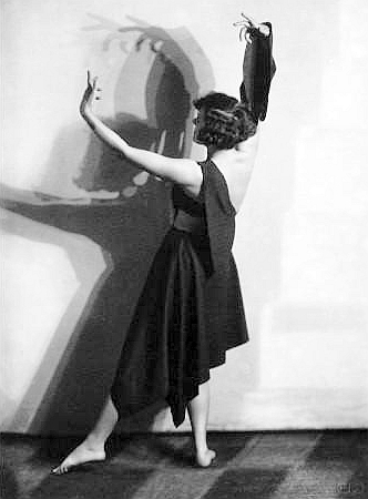 Estonian dancer Gerd Neggo (1891-1974) dancing her Arabesque at the Vanemuise Teater (now Vanemuine) in Tartu on 17 March 1928.